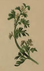 Stainton’s Natural History of the Tineina (1855–1873): Epermenia aequidentellus a carrot leaf discoloured by larva